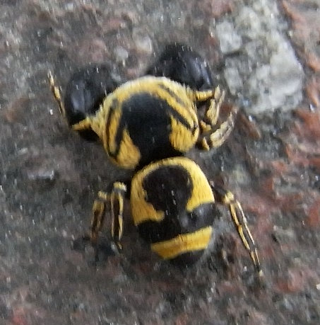 male Rhene flavicomans in the forest near Admiralty, Hong Kong.